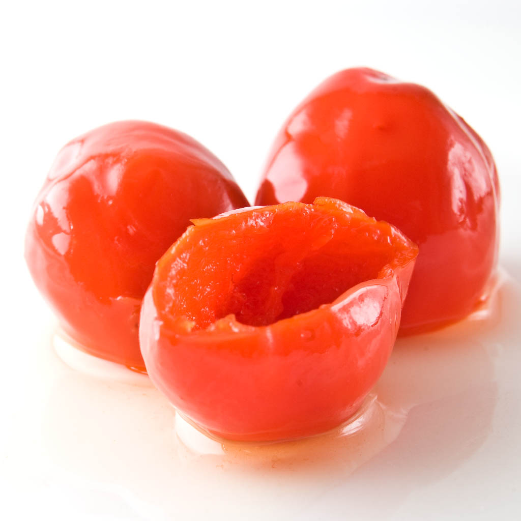 Three Peppadew Peppers